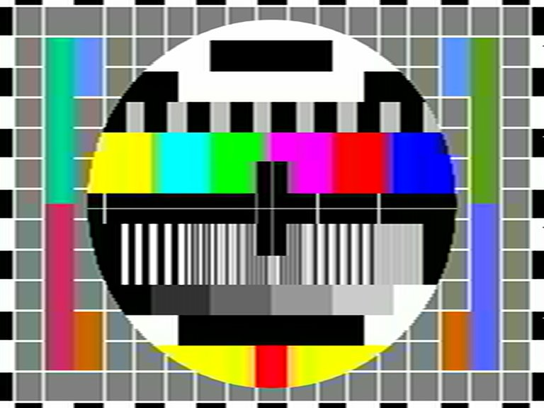 Test pattern on VHS